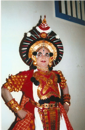 Yakshagana